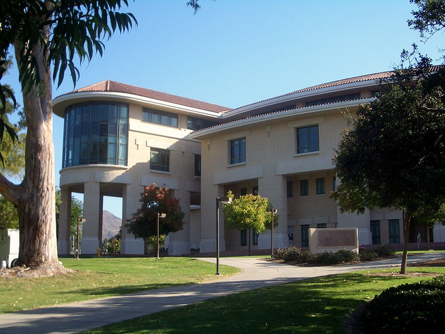 The Orfalea College of Business — of the California Polytechnic State University, San Luis Obispo.